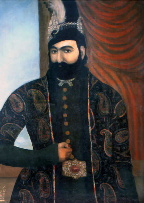 Mohammad Shah Qajar